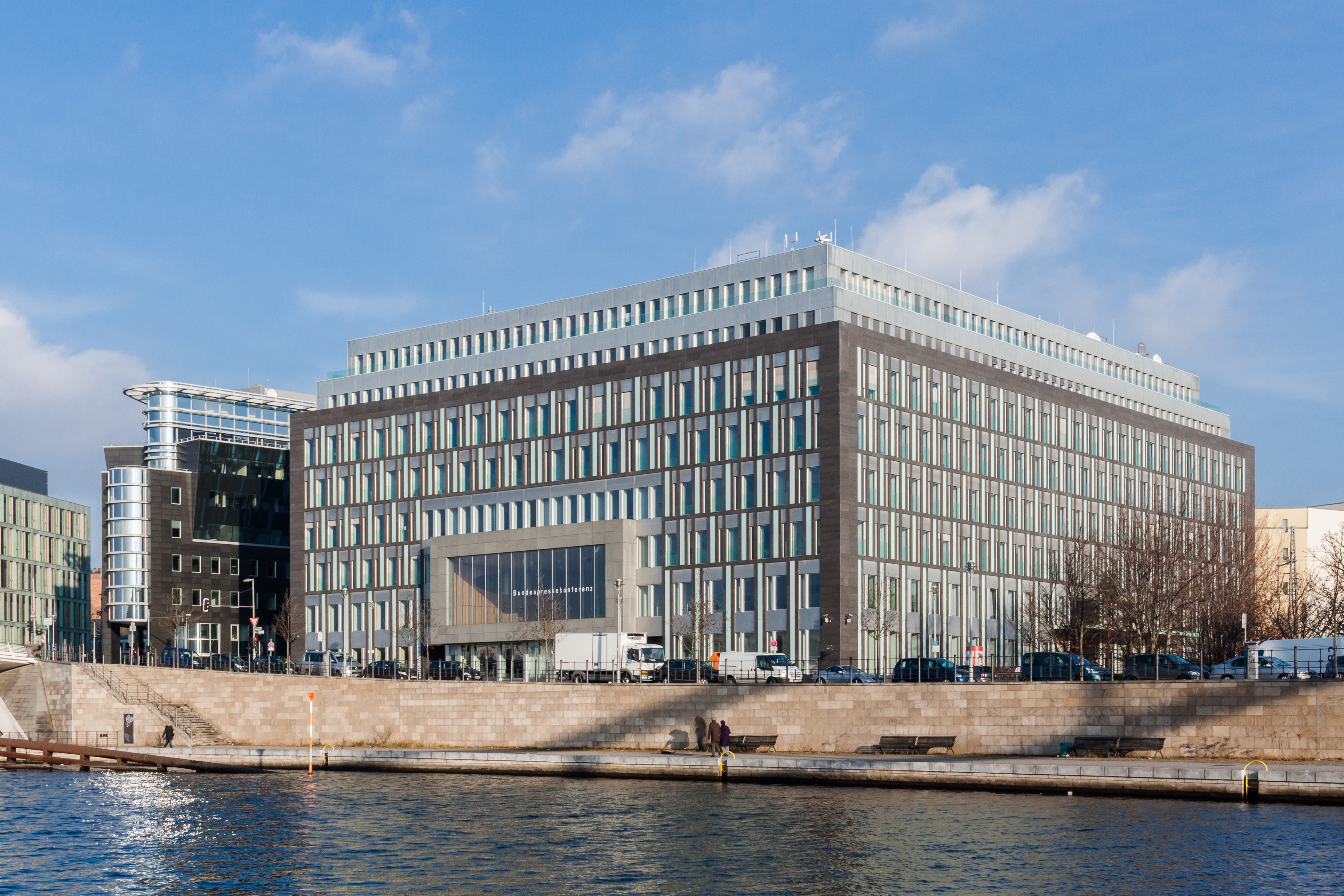 At the right the building of the German federal press conference. It was built by the architects Nalbach + Nalbach. At the left the office building Reinhardtstraße 56-58, which was built by TBP Triet Brown Tietjen Schmittmann 2004.